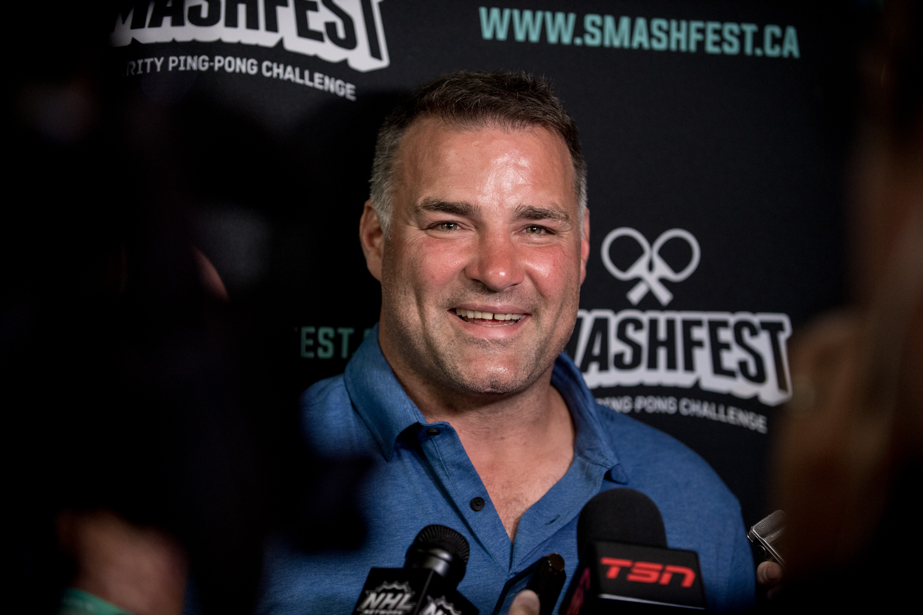 Eric Lindros participating at Smashfest, a charity ping pong event.